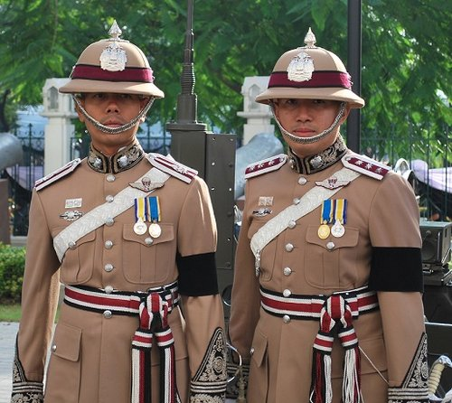 นายตำรวจปกครอง rpcacommander